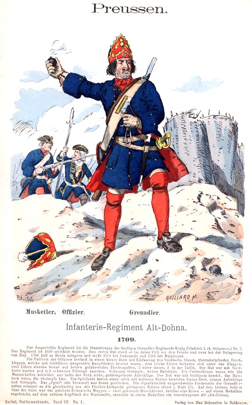 Preußen: Infanterie-Regiment Alt-Dohna. Musketier. Offizier. Grenadier. 1709